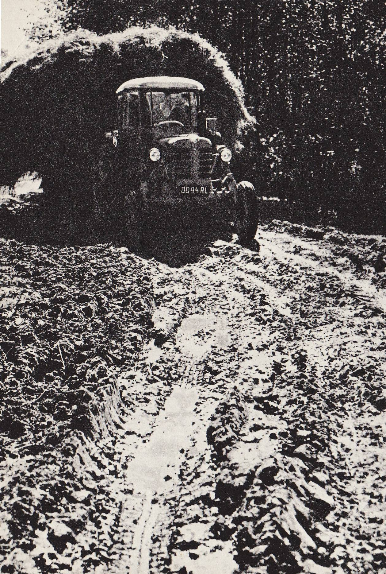 State Agricultural Farm in Smolnik